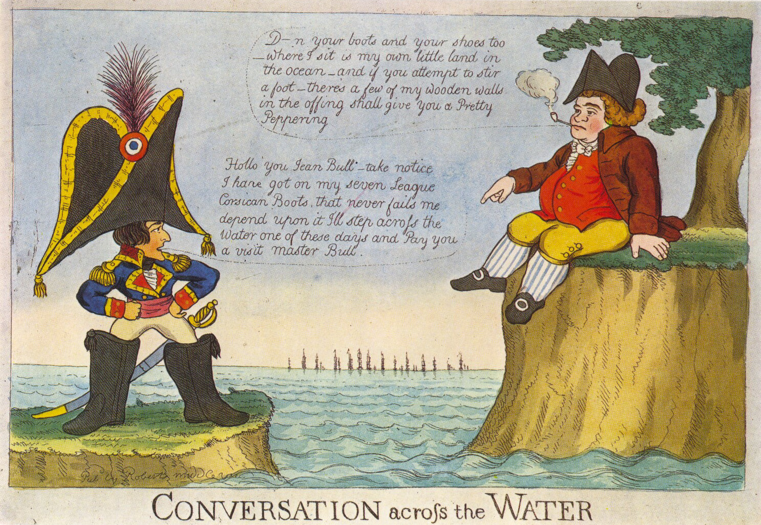 Conversation across the Water; John Bull & Napoleon